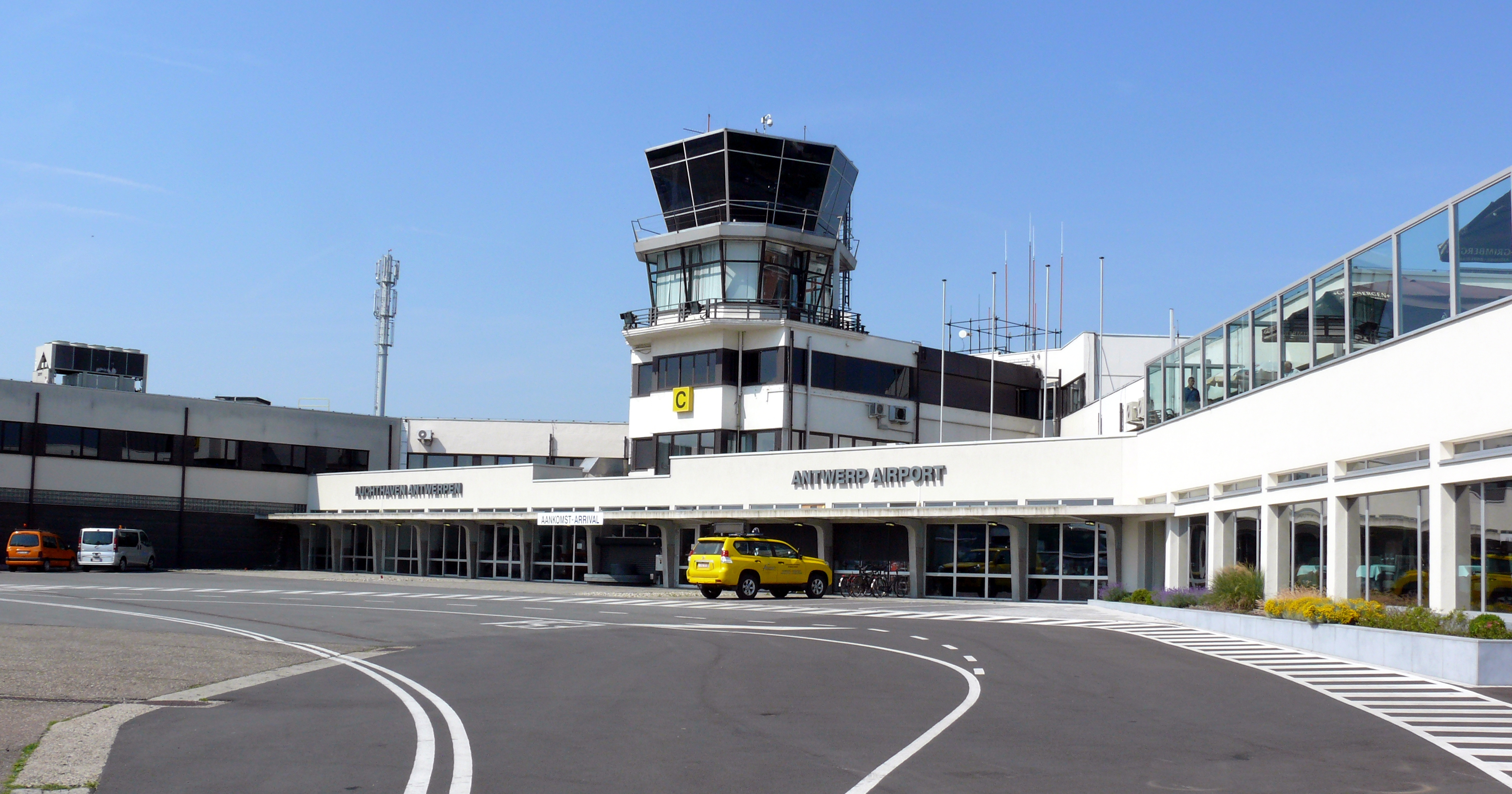 Terminal of Antwerp International Airport also known as Deurne Airport.